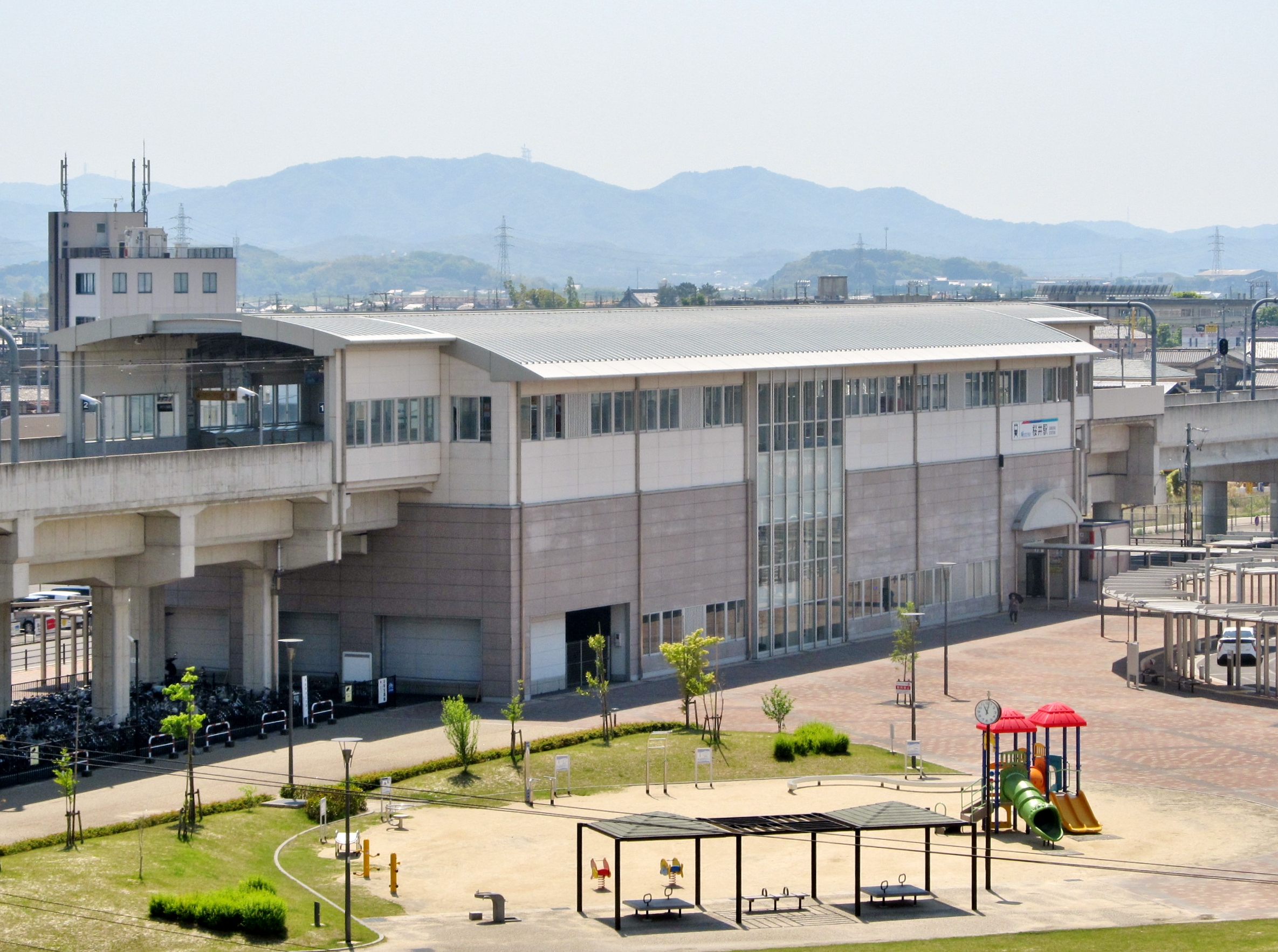 Panorama of Sakurai Station, Nagoya Railroad Nishio Line.